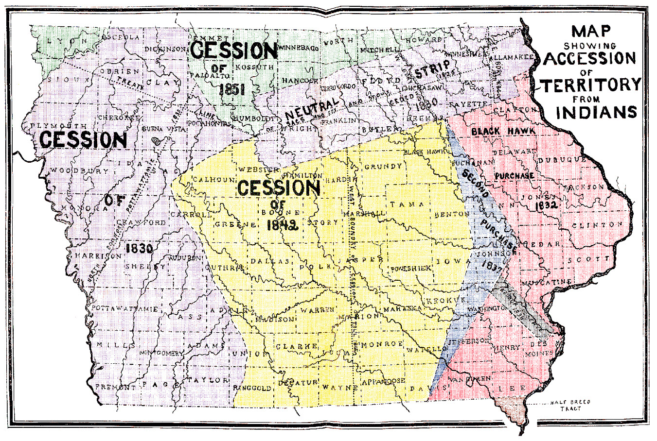 "Map Showing Accession of Territory from Indians" from the original instructions for the Census of Iowa for the Year 1905, Published: 1905-1906, Des Moines, Iowa, Bernard Murphy, State Printer; Under the authority of chapter 8, acts of the 30th general assembly, page iii